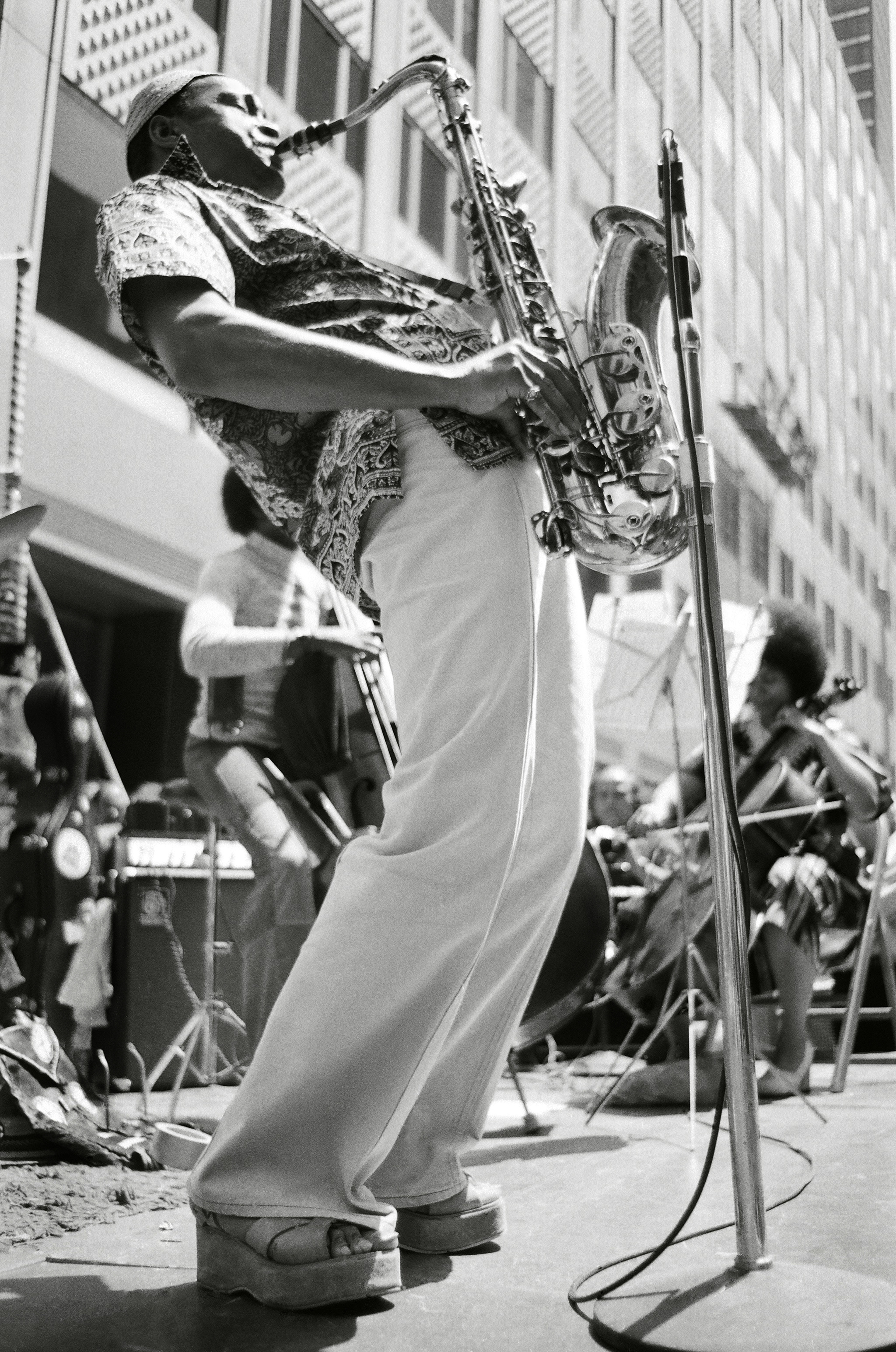 George Adams July 6th 1976 NYC